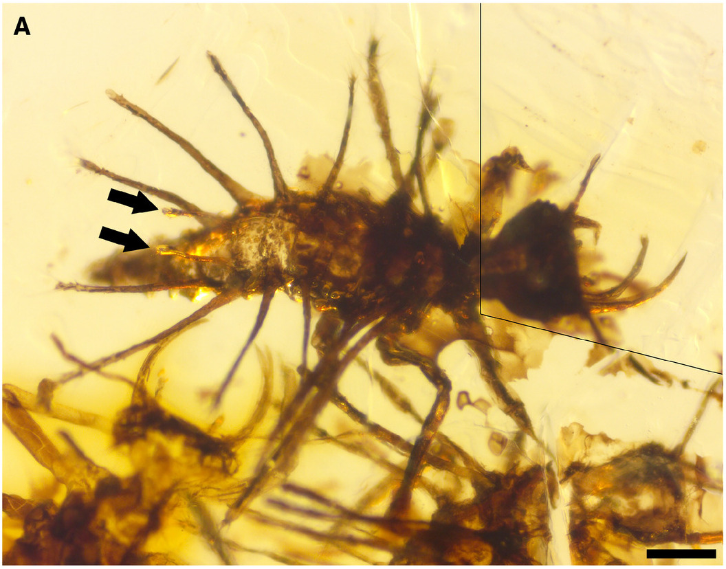 FIG. 4. Morphological details of Tragichrysa ovoruptora gen. et sp. nov. and associated egg chorions, and habitus of the isolated paratype specimen. A, dorsal habitus of NHMLU-AC S- 7a, holotype of T. ovoruptora; arrows indicate the additional pair of tubular tubercles present in abdominal segment 4, dorsolateral in position. Scale bar represents 0.2 mm